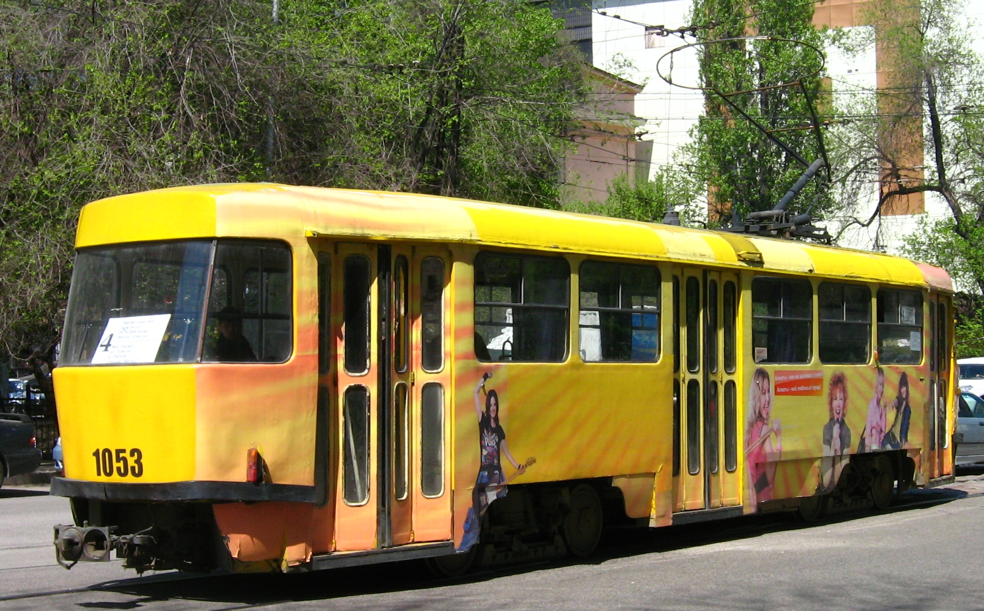 Tramway (1053) in Almaty, Kazakhstan.